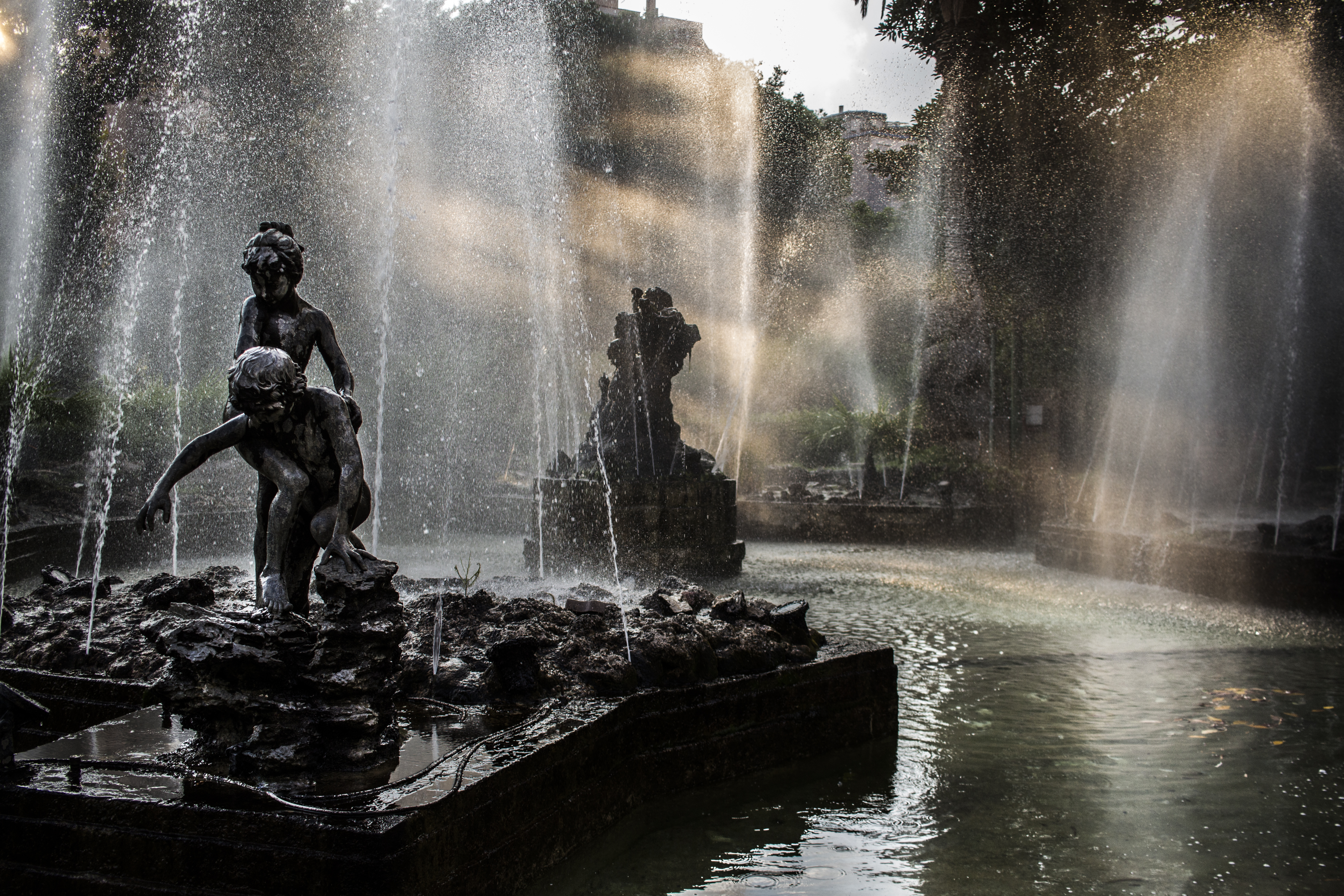 Sunbeam in fountain - English Garden - Palermo (PA) - Sicily This is a photo of a monument which is part of cultural heritage of Italy.